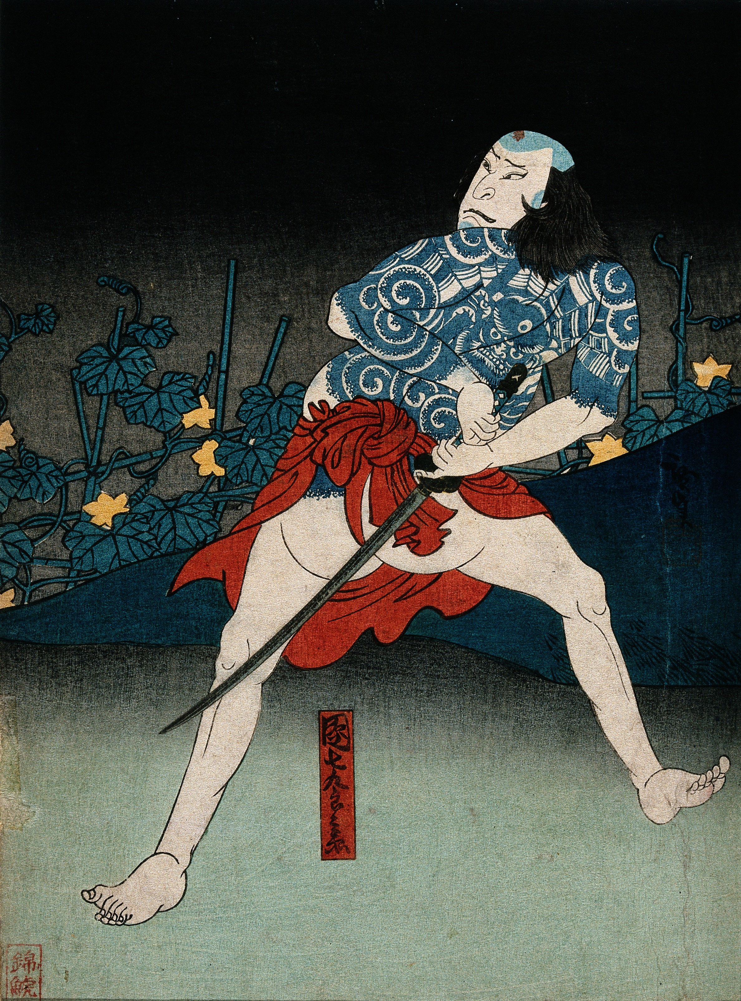 An actor as Donshichi Kurōbei. Colour woodcut by Hirosada. Iconographic Collections Keywords: Hirosada